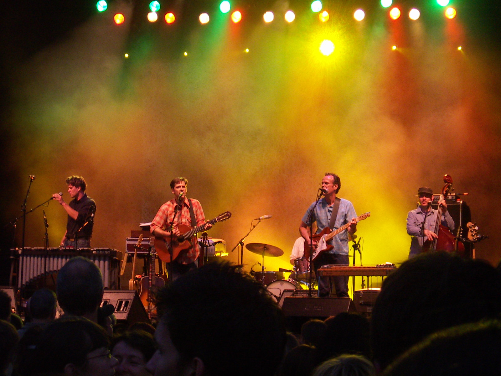 Calexico playing in Jena (Germany), 18.07.2007